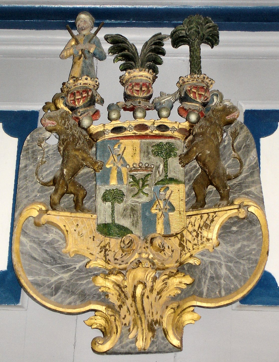 Church in Friedrichshagen, Mecklenburg, Germany